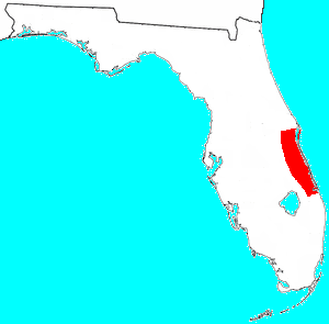 Approximate territory of the Ais tribe in the late 17th Century. Modified from Image:FLMap-doton-Hobe Sound.PNG by User:Dalbury on November 28 2005.